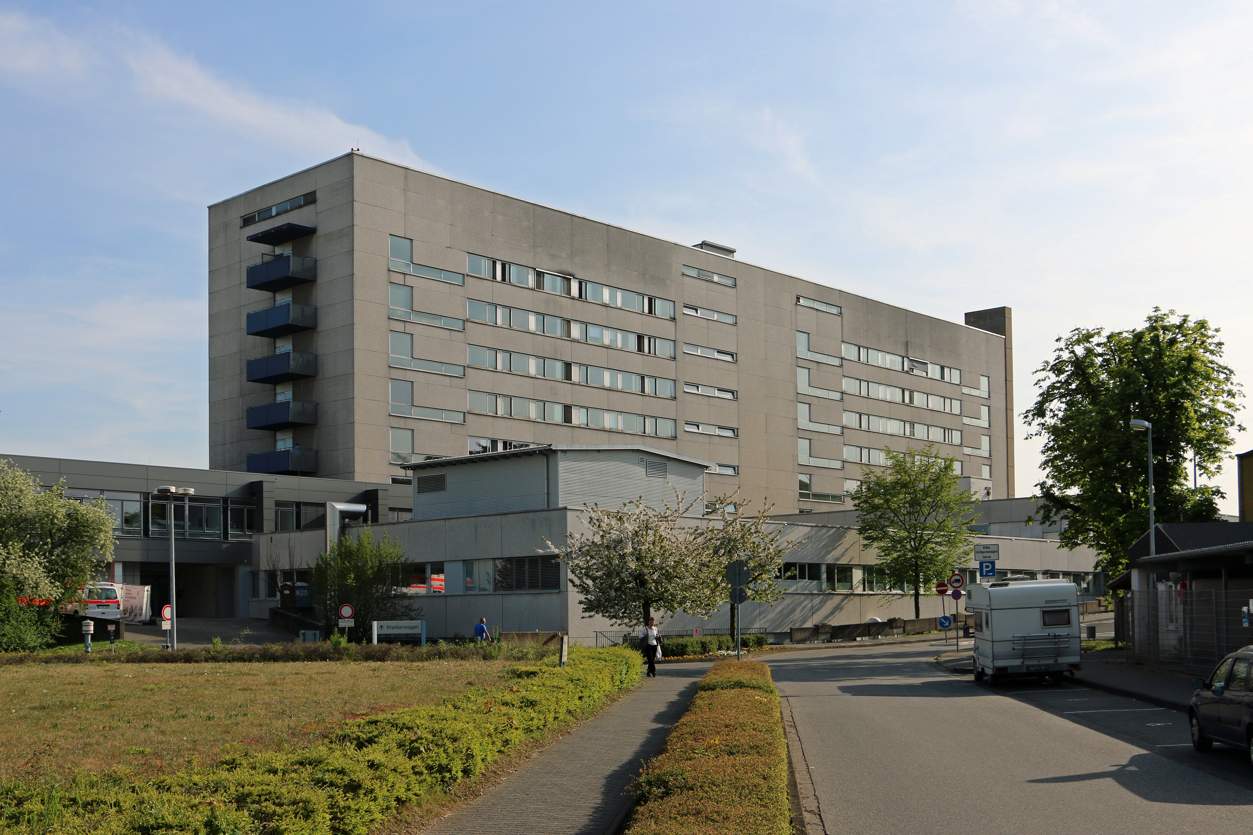 Hospital Kemperhof in Koblenz